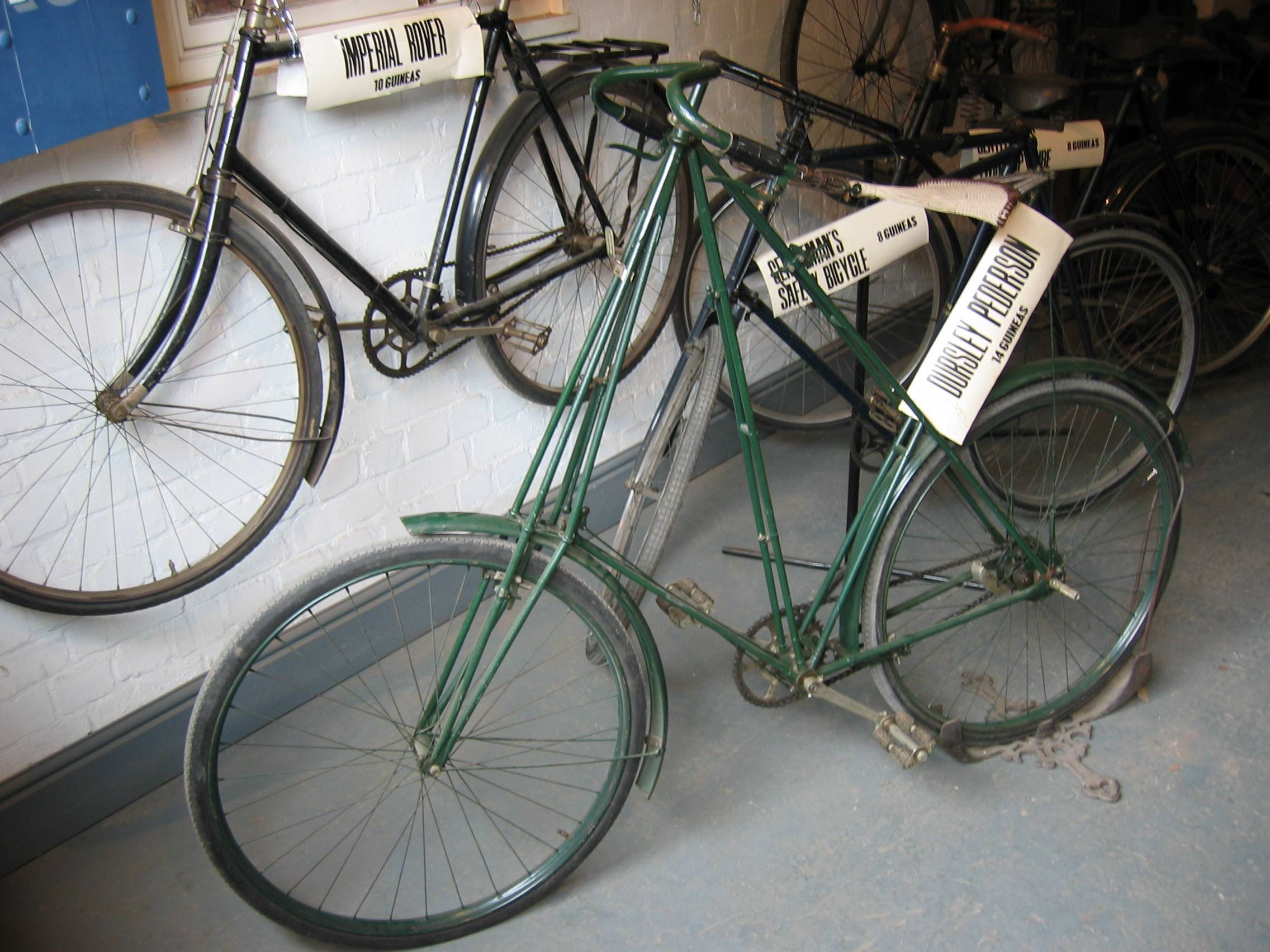 The bicycle shop at Blists Hill